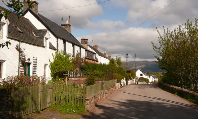 Milton Looking east along the main street in Milton